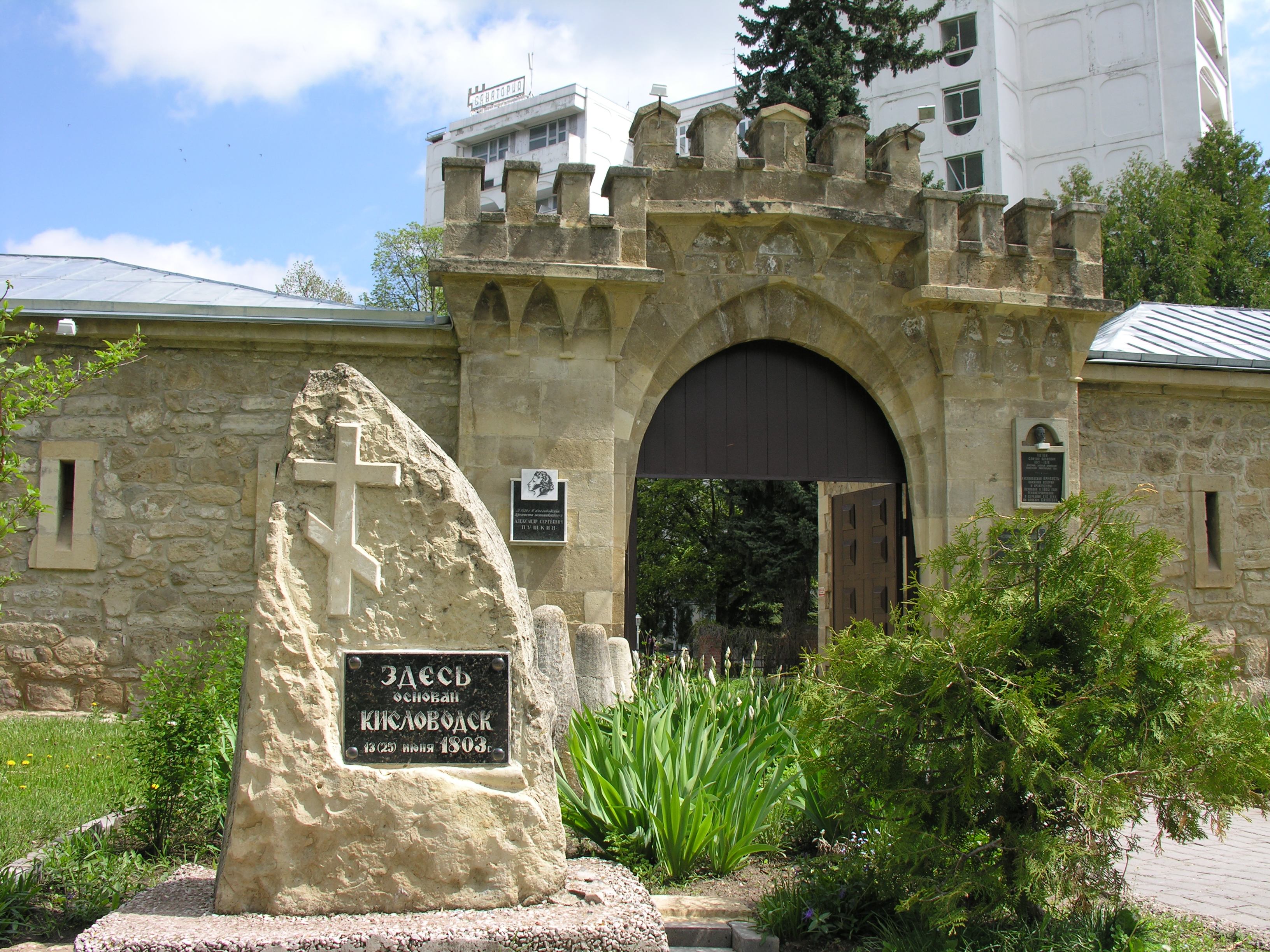 Kislokodsk local history museum